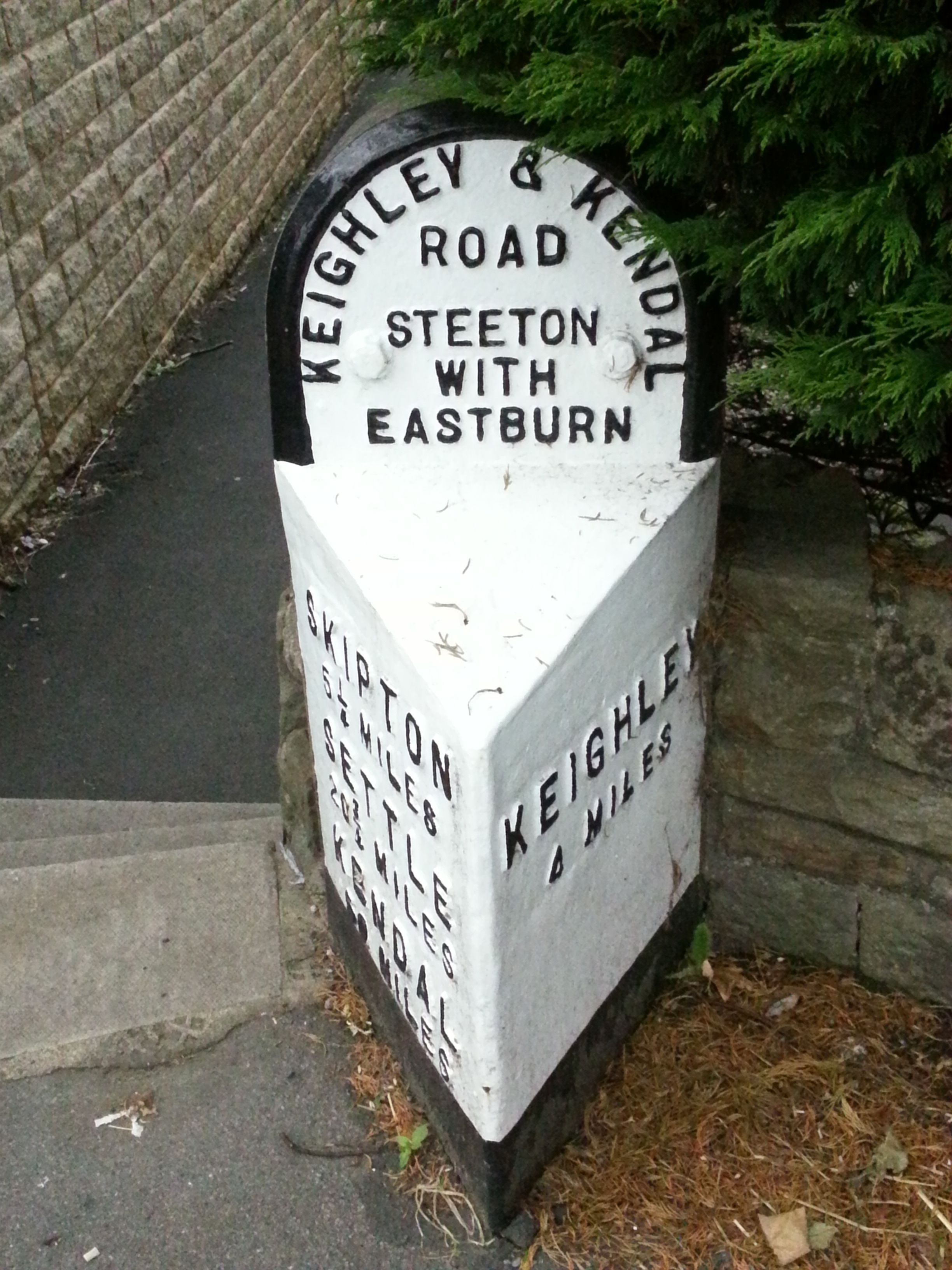 Photograph of Grade 2 listed milestone in Eastburn, Keighley W Yorkshire as described here